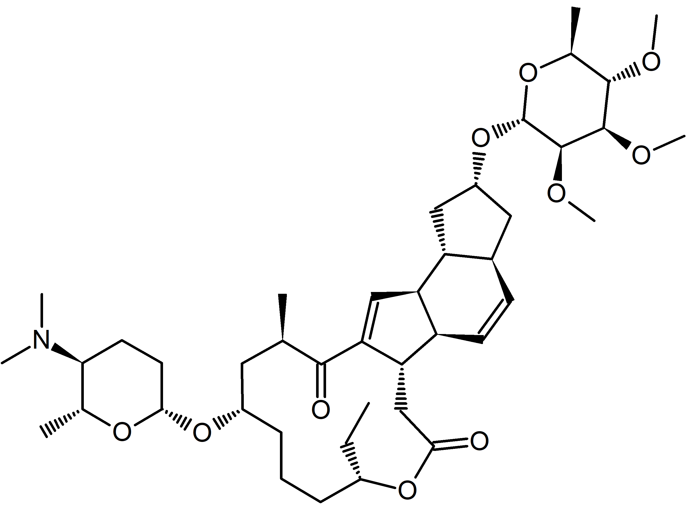 Structure of Spinosyn A